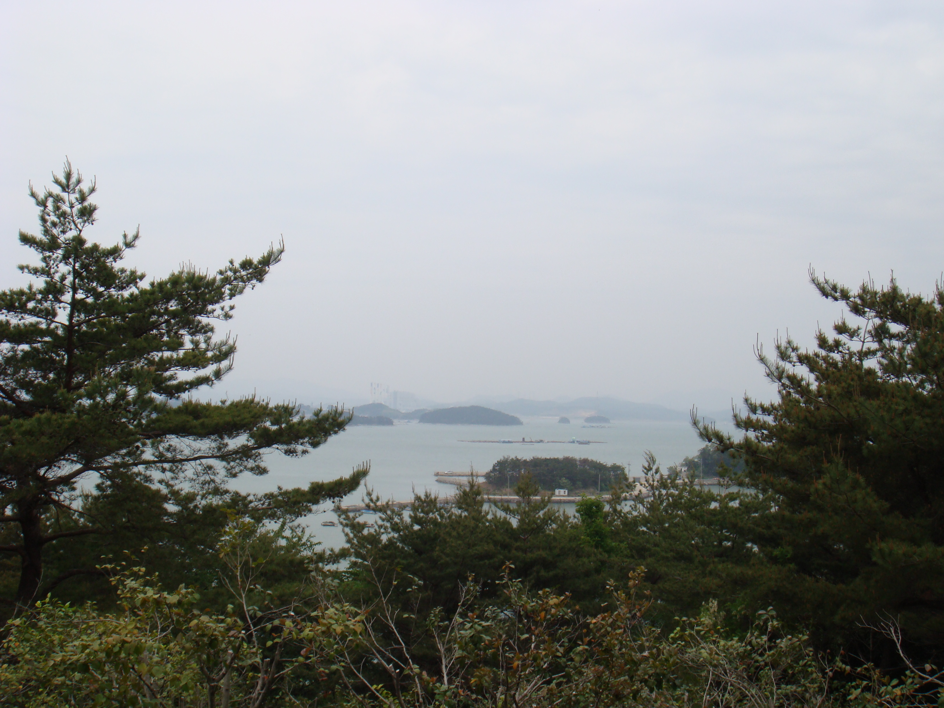 take at N34/54/36, E127/51/9 near by Yiraksa, the shirine commemorating the death of Yi Sun-sin